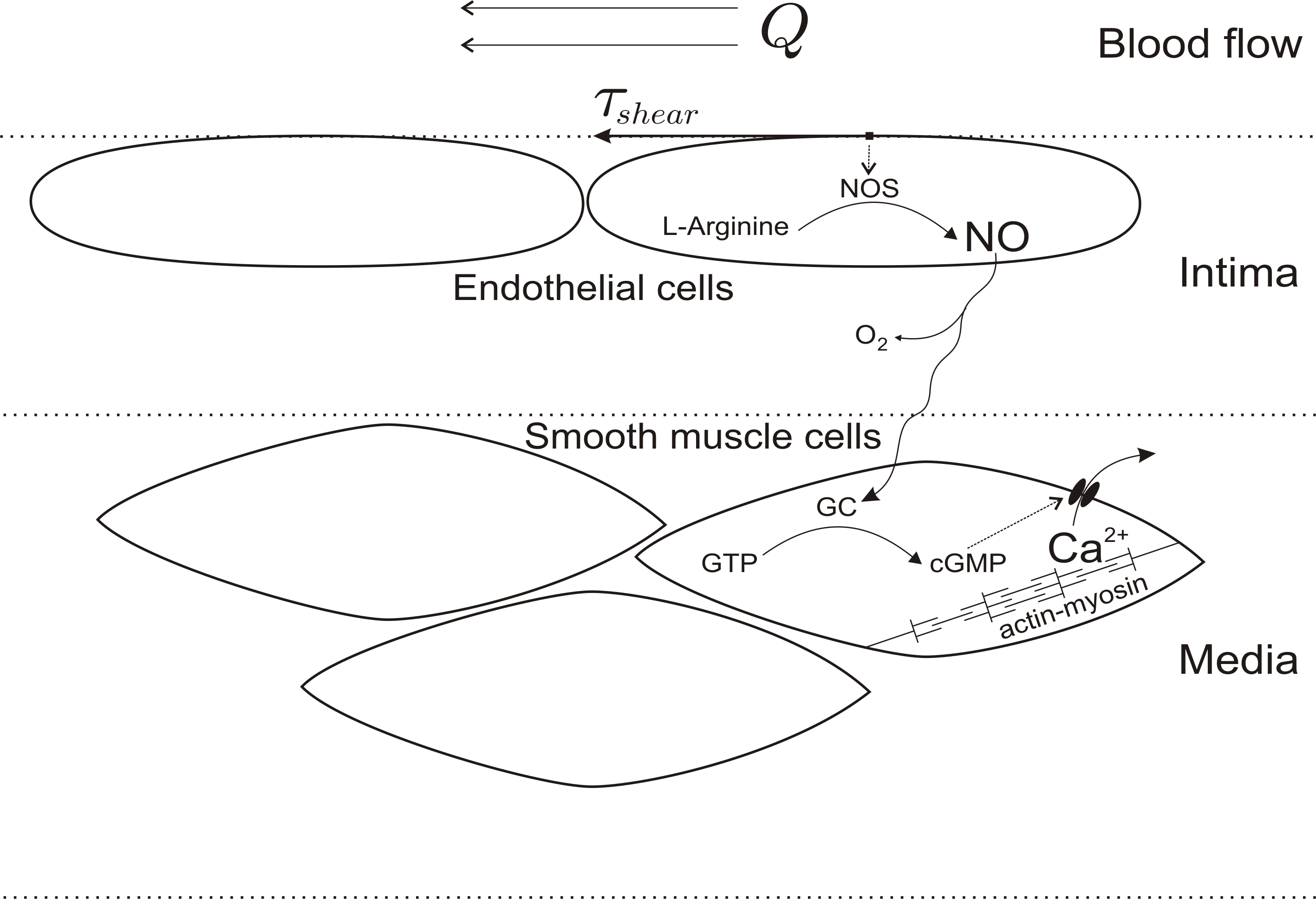 A diagram of NO blood supply regulation